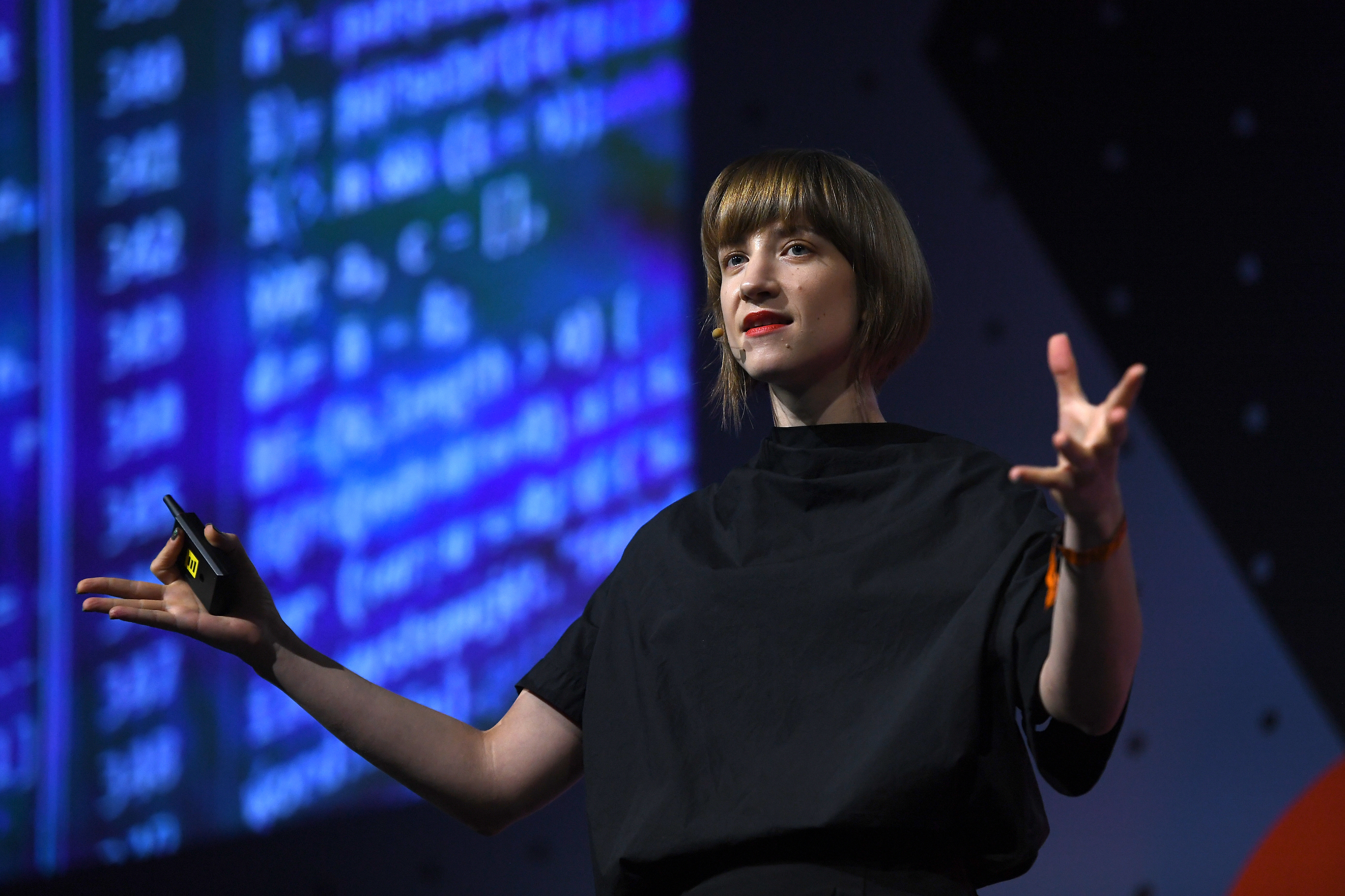 7 November 2018; Cassie Kozyrkov, Google, on Binate.io Stage during day two of Web Summit 2018 at the Altice Arena in Lisbon, Portugal. Photo by Harry Murphy/Web Summit via Sportsfile